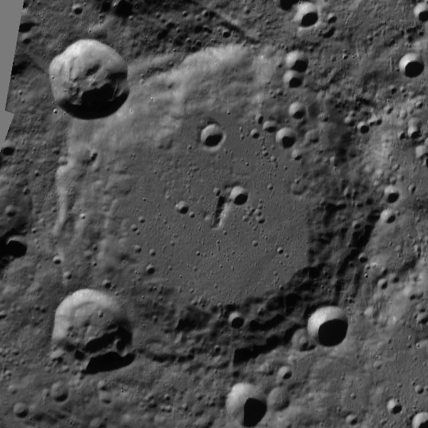 Pascal crater, on the moon. Lunar Reconnaissance Orbiter North Polar mosaic.